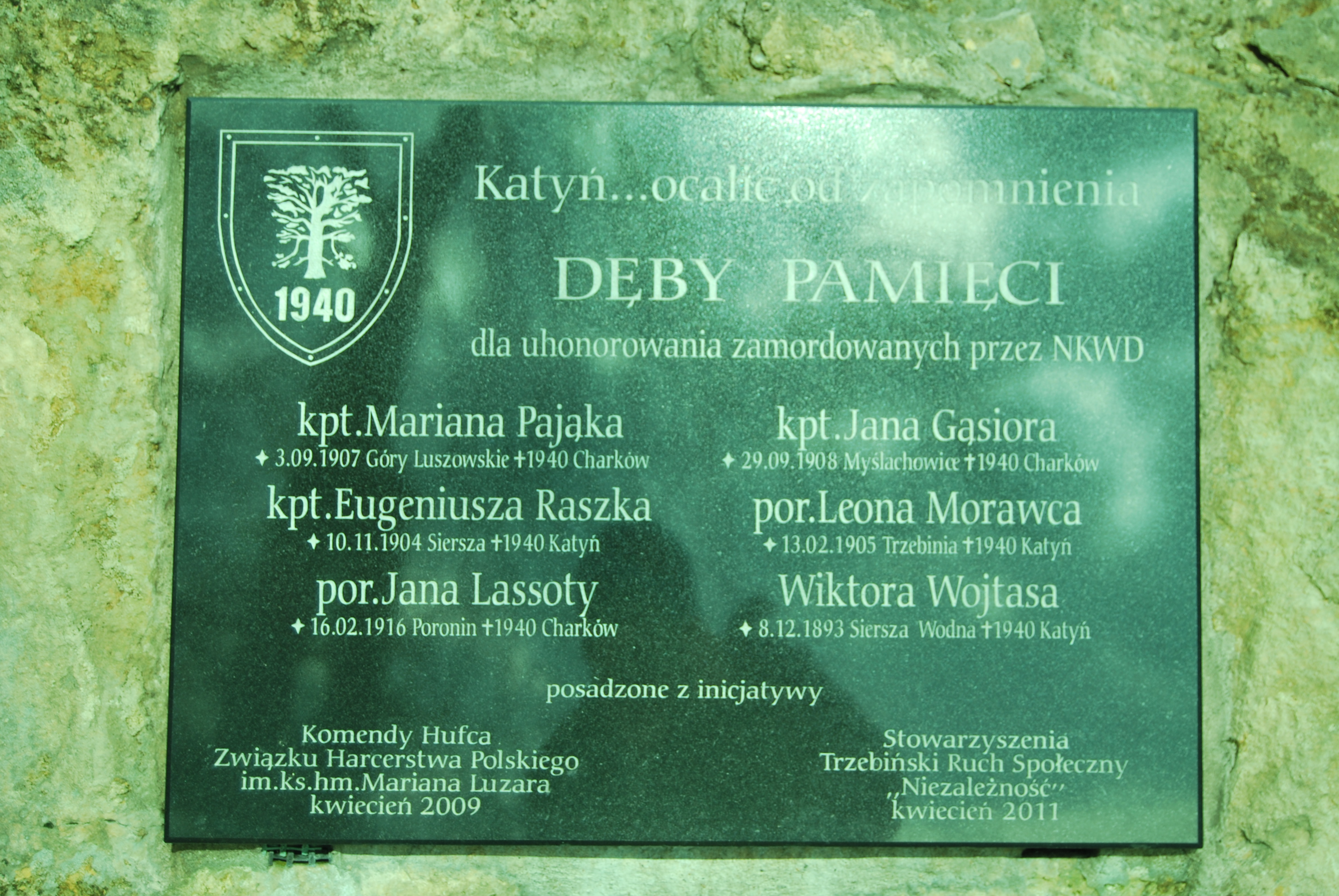 Memory Oaks in Trzebinia, 2015.